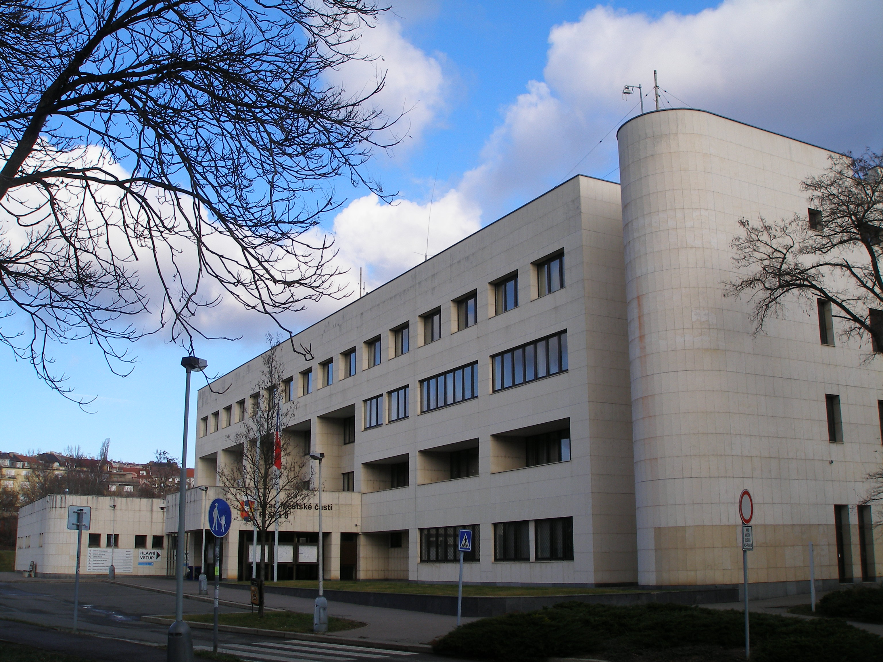 Bílý dům (White house) in Prague, Libeň